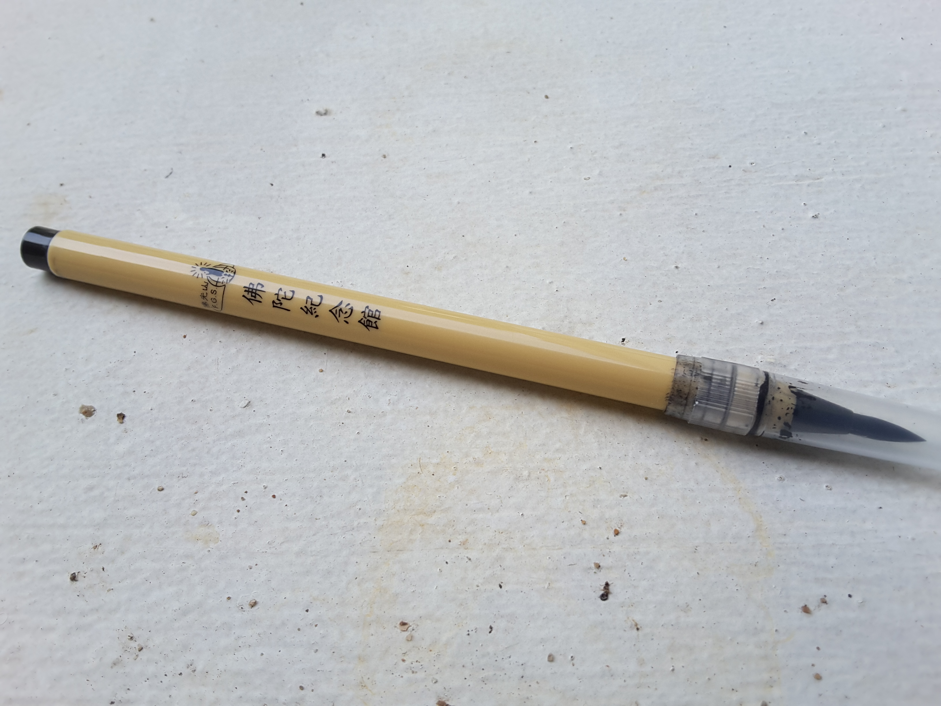 A self inking black brush from Fo Guang Shan Buddha Museum.